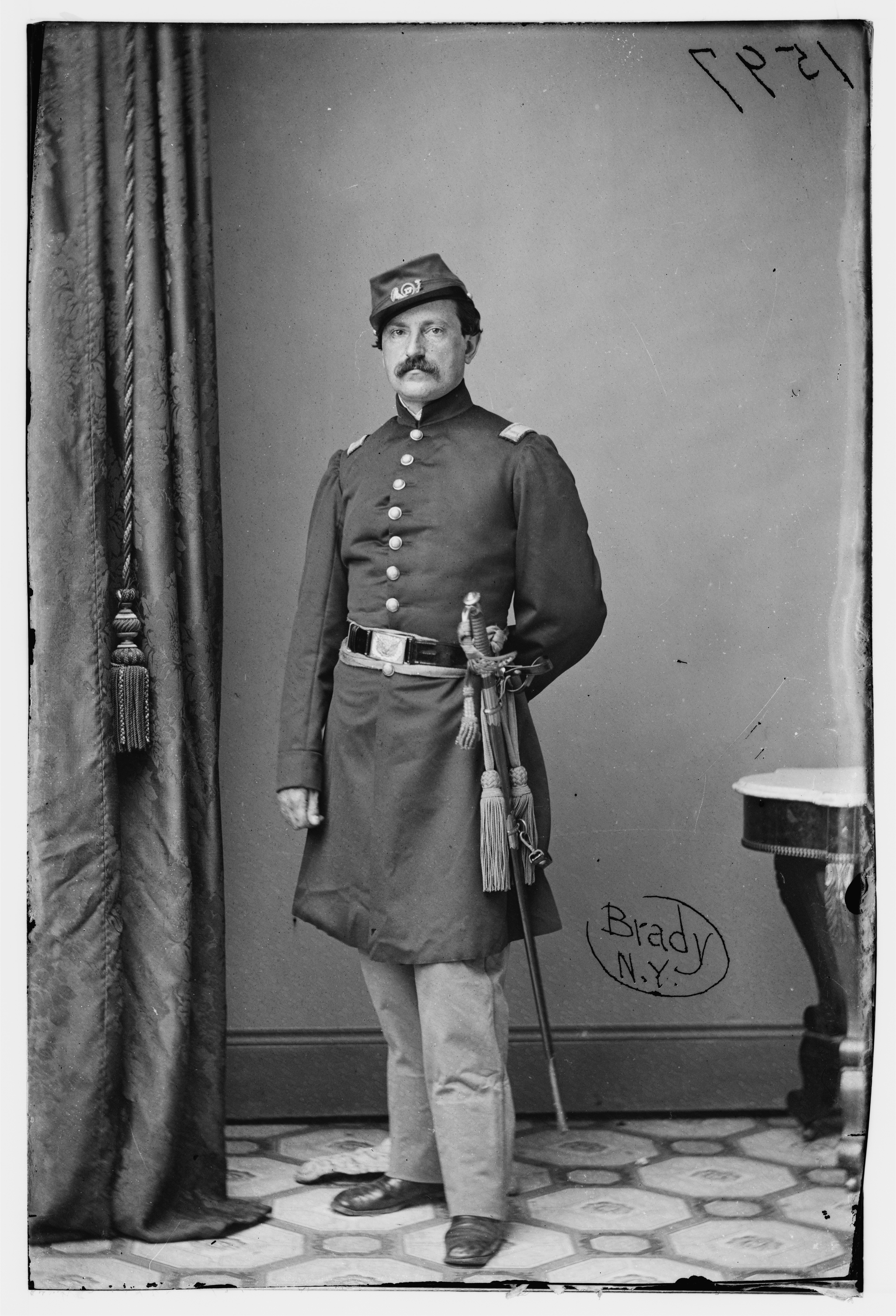 Title: Capt. James D. Hawes, 133rd N.Y. Physical description: 1 negative